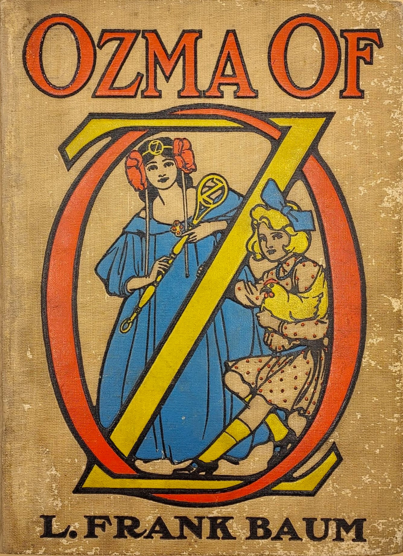 The original 1907 cover to Ozma of Oz by L. Frank Baum. Designed by artist John R. Neill. Now out of copyright.